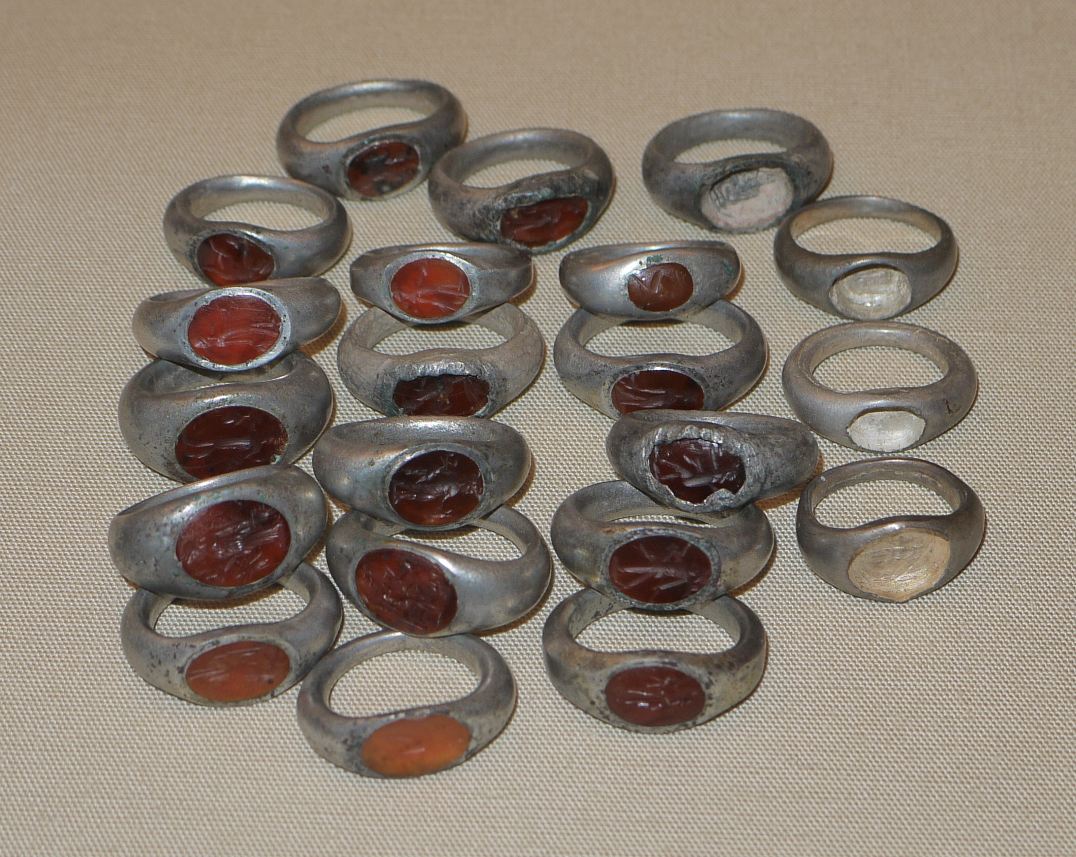 Rings from the snettisham jewellers hoard at the British Museum